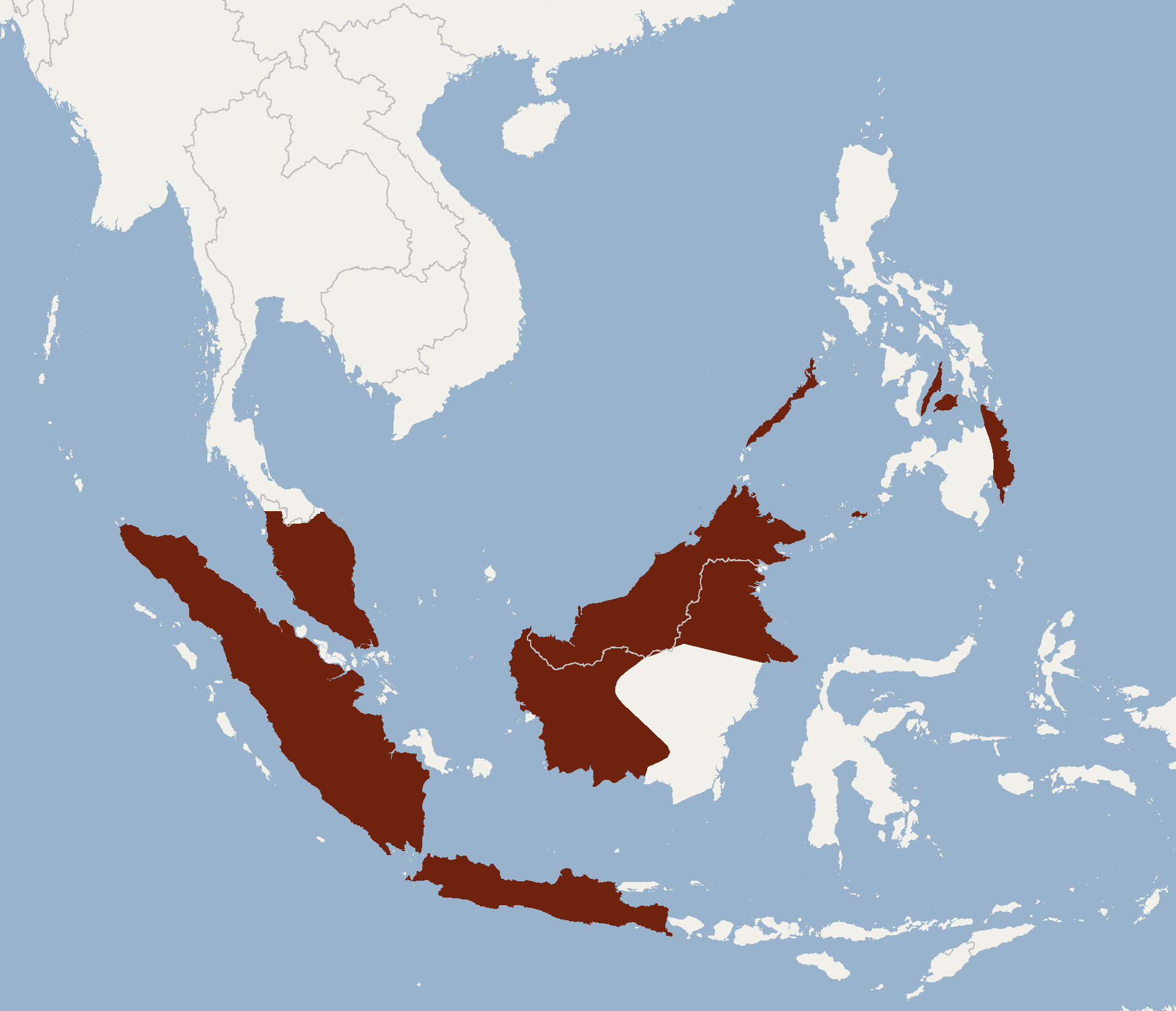 Geographical distribution of Kerivoula pellucida according to IUCNRedlit